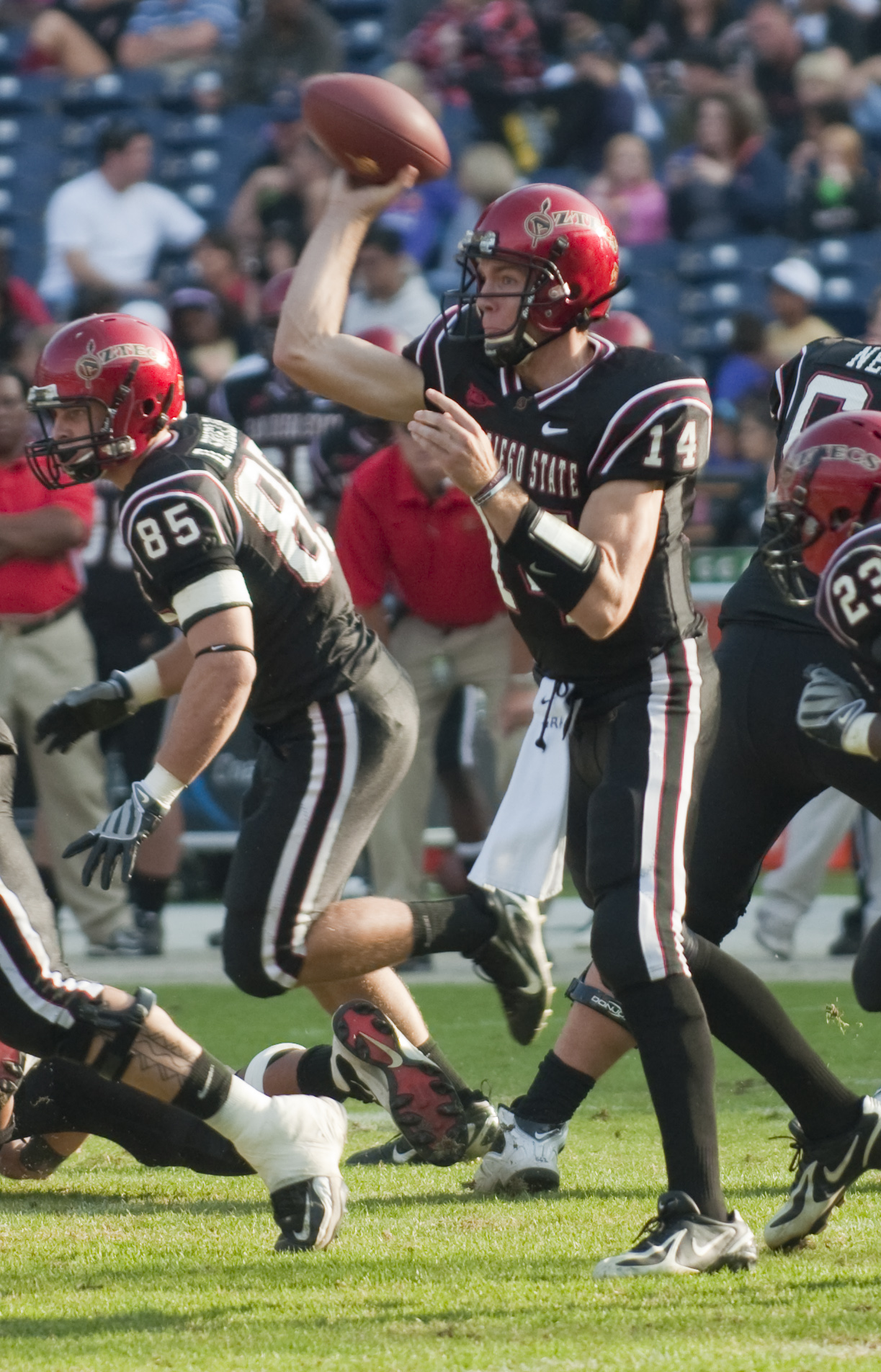 San Diego State Aztecs quarterback Ryan Lindley in a game against the TCU Horned Frogs on November 7, 2009.